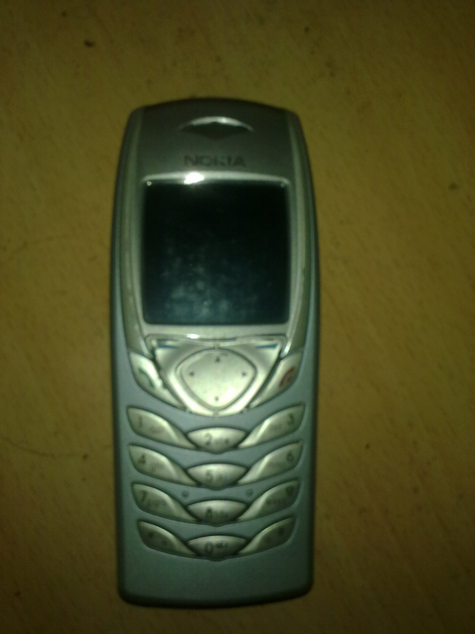 Nokia 6100 switched offf